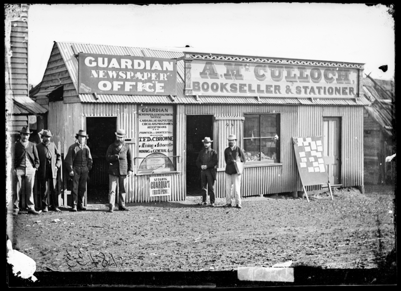 The office of Gulgong Guardian And District Mining Record and Alexander McCulloch's book and stationary shop.